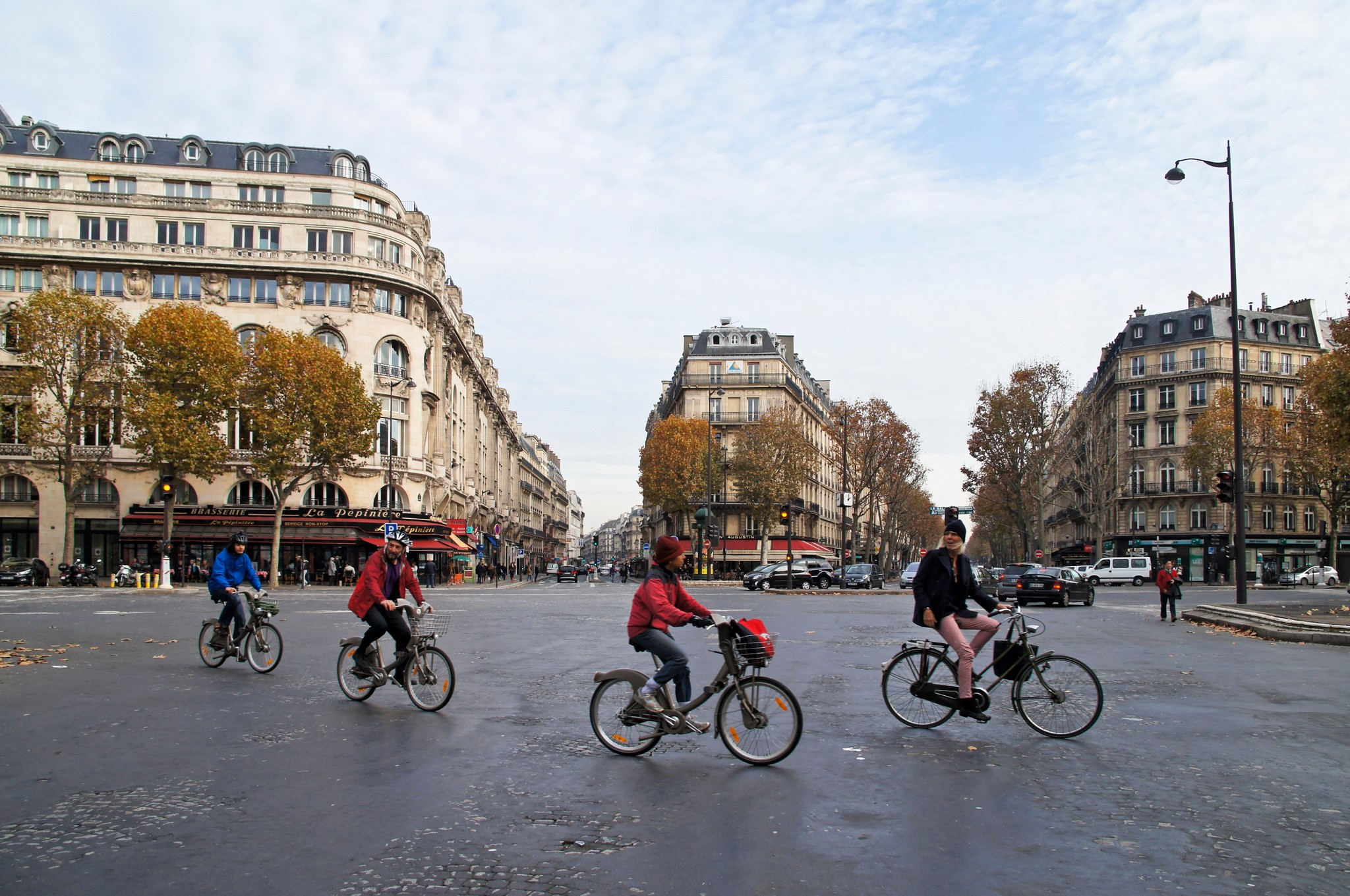 Place Saint-Augustin, Paris.